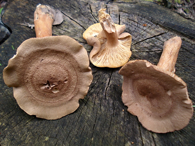 Lactarius helvus (Fr.) Fr. Image location: Lackawanna Co., Pennsylvania, USA Sweet odor reminds me of maple syrup. I’ve found this one many times at this same location. These were some of the largest; one having stem about 8 inches long. Recognized by sight For more information about this, see the observation page at Mushroom Observer.